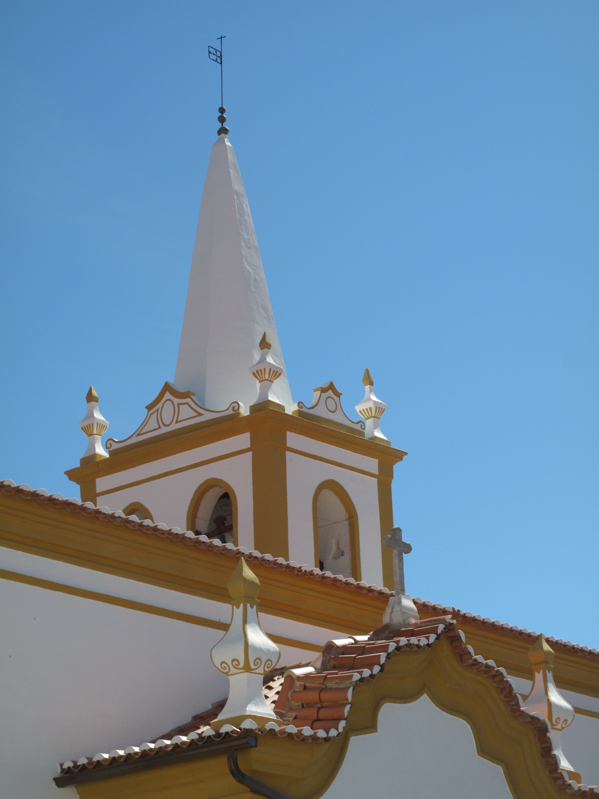 This file was uploaded for Wiki Loves Monuments in Portugal with the unique identifier 71799.